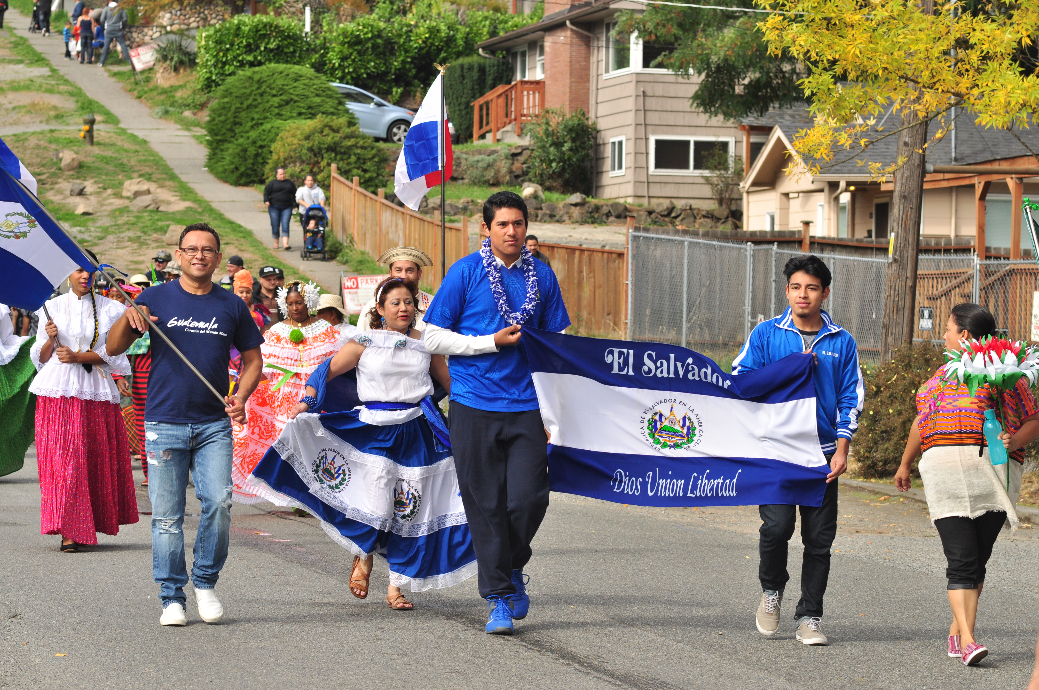 Fiestas Patrias Parade, South Park, Seattle, Washington, U.S., September 19, 2015 - 027 - Salvadorans